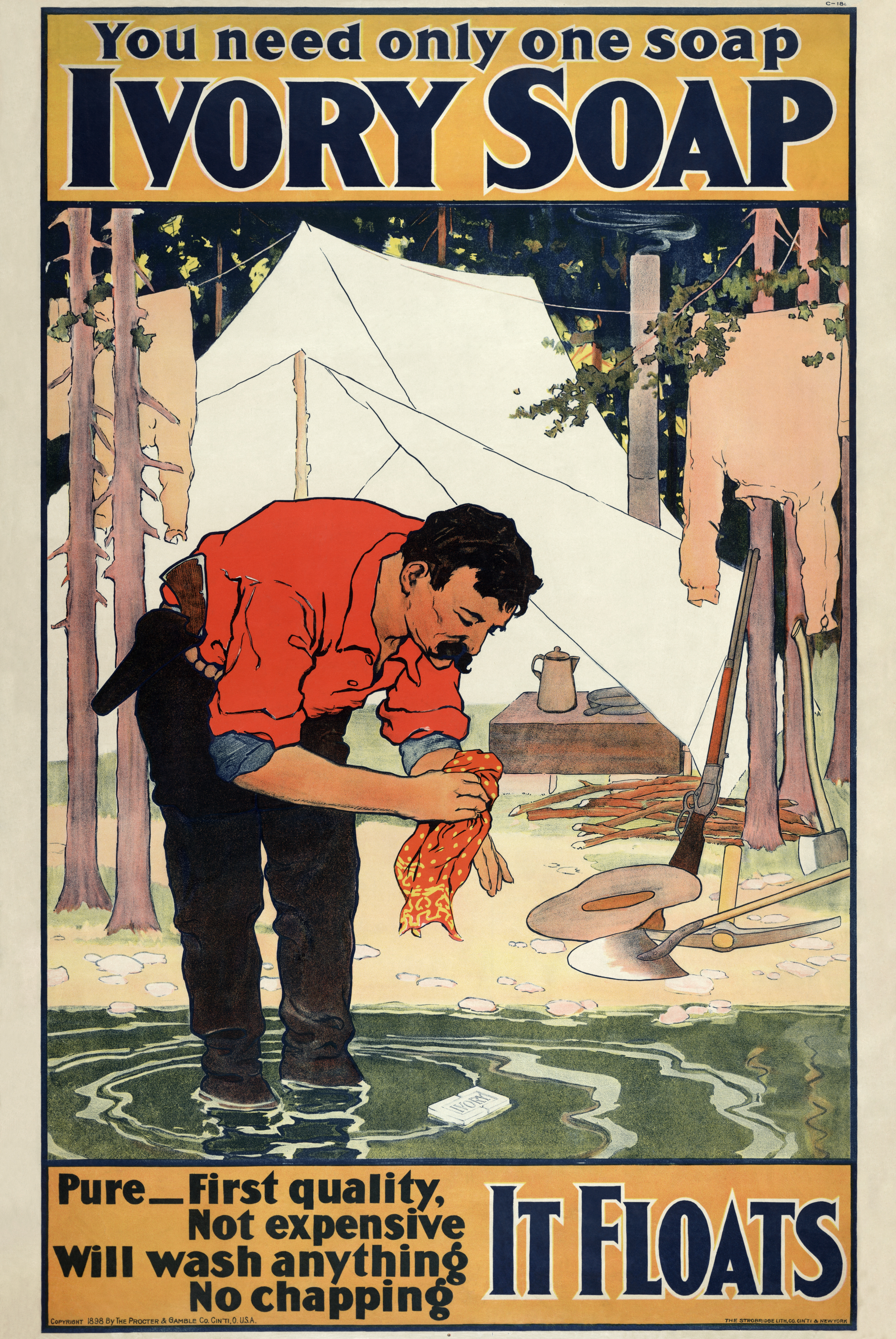 "You Need Only One Soap—Ivory Soap", 1898 advertisement for Ivory Soap, by the Strobridge Lith. Co., Cin'ti & New York. Copyright 1898 by The Procter & Gamble Co., Cin'ti, O., U.S.A. Restoration by Adam Cuerden.